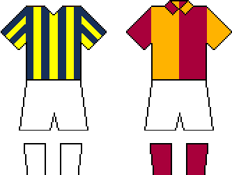 Fenerbahe SK vs Galatasaray SK kits